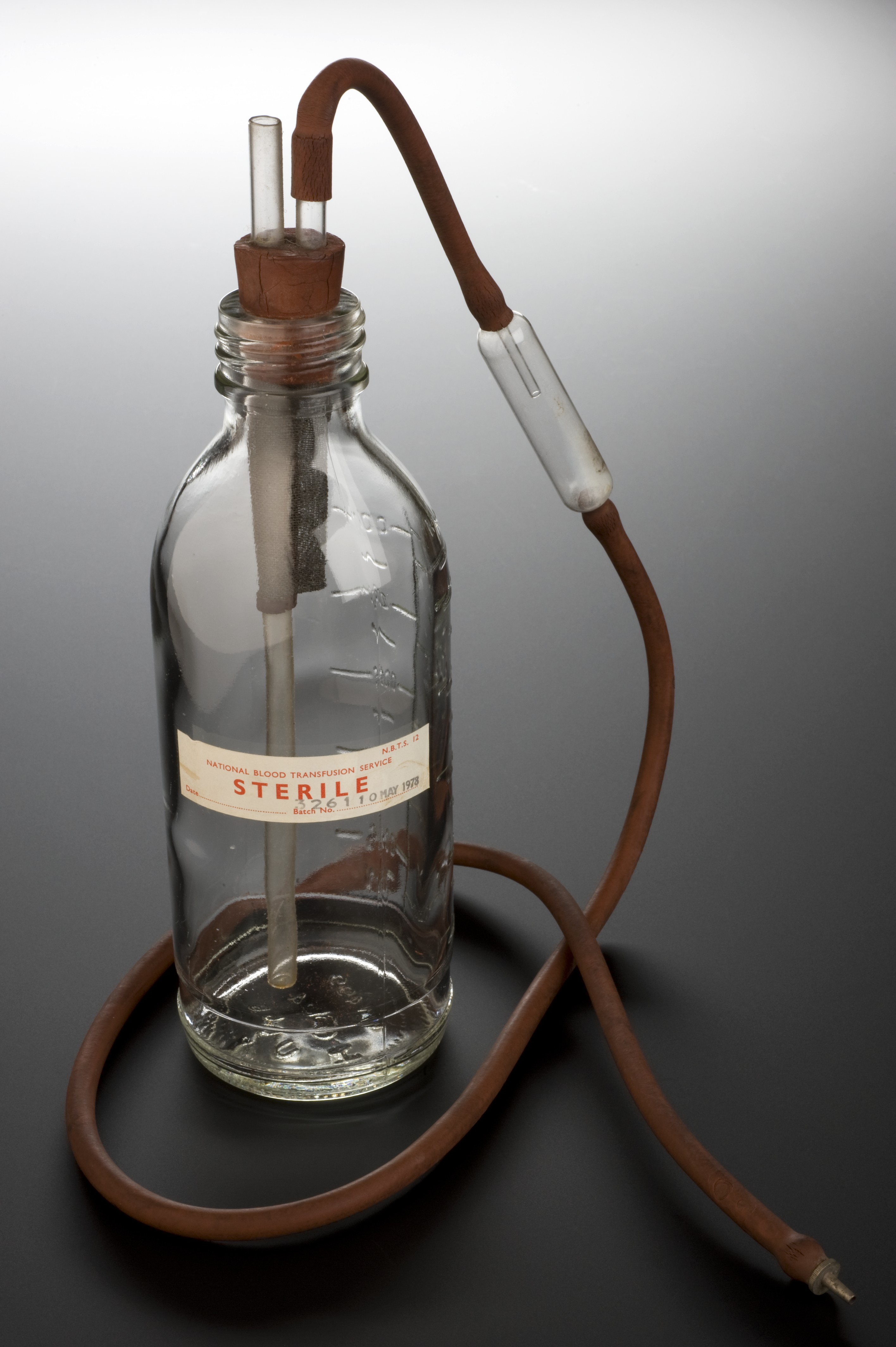 Blood is taken from one person and given to another in a blood transfusion. From the First World War onwards, it became possible to store blood. Blood banks were used by the Second World War. The first stage saw a single donation stored in a bottle such as this. This bottle was supplied to the National Blood Transfusion Service. The organisation was founded in 1946 to coordinate collecting and storing blood for the nation. Glass bottles were replaced by disposable plastic bags from 1975. This allowed far wider and more convenient blood distribution. Blood banks are now standard medical practice. They screen blood for diseases as well as store it. There are around 60,000 litres of blood currently held in Britain by The National Blood Service. This figure does not include blood held within hospitals across the country. maker: Unknown maker Place made: England, United Kingdom Medical Photographic Library Keywords: blood transfusion apparatus